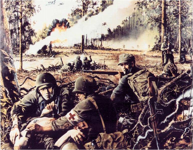 124th Infantry Regimental Chaplain, Father Thomas Colgan administers aid to wounded. He was killed in action and awarded the Distinguished Service Cross posthumously.